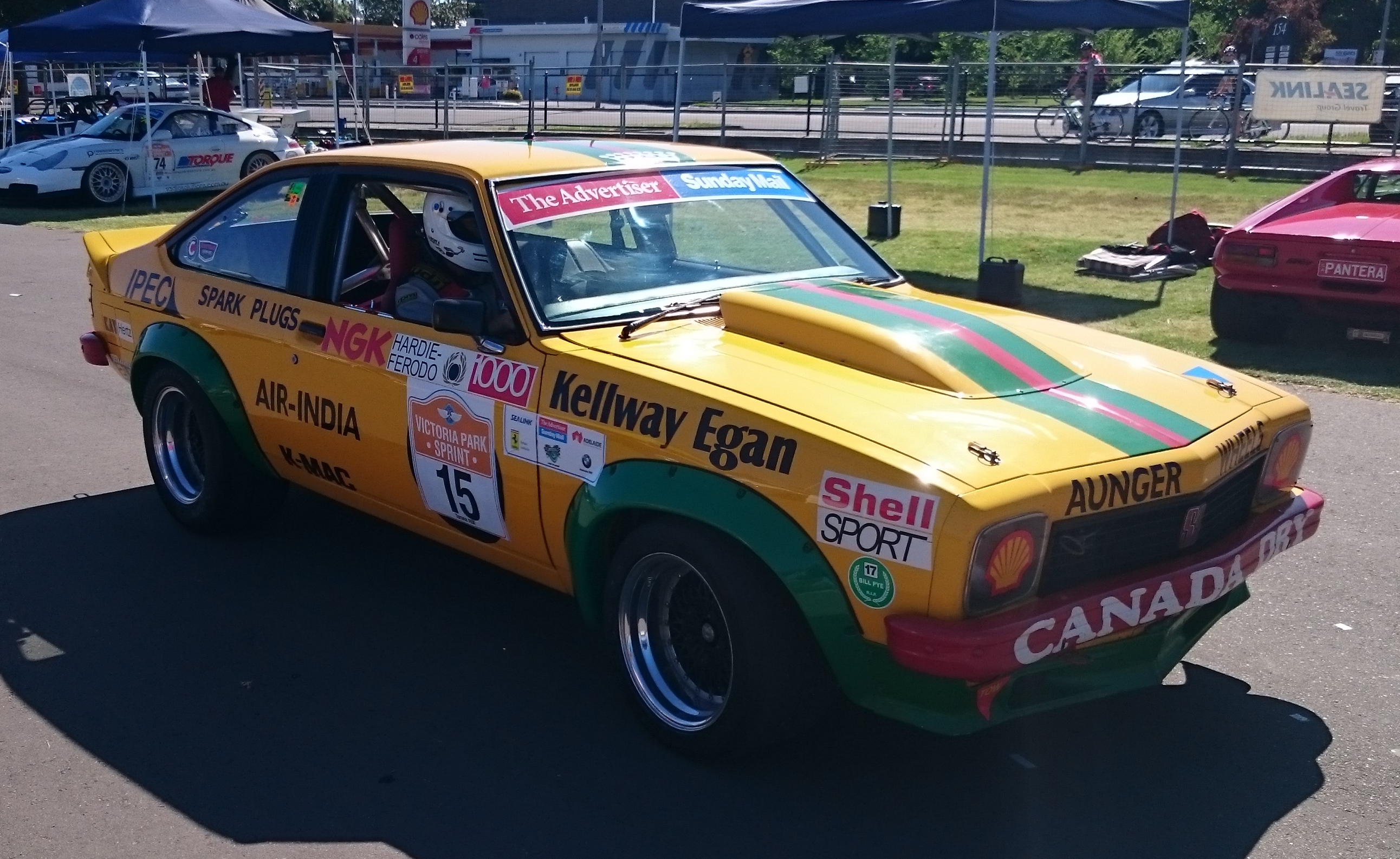 Holden Torana SS A9X at the 2015 Adelaide Festival of Motorsport. This car is presented in the colors as raced in the 1977 Hardie-Ferodo 1000 by Peter Janson and Larry Perkins.